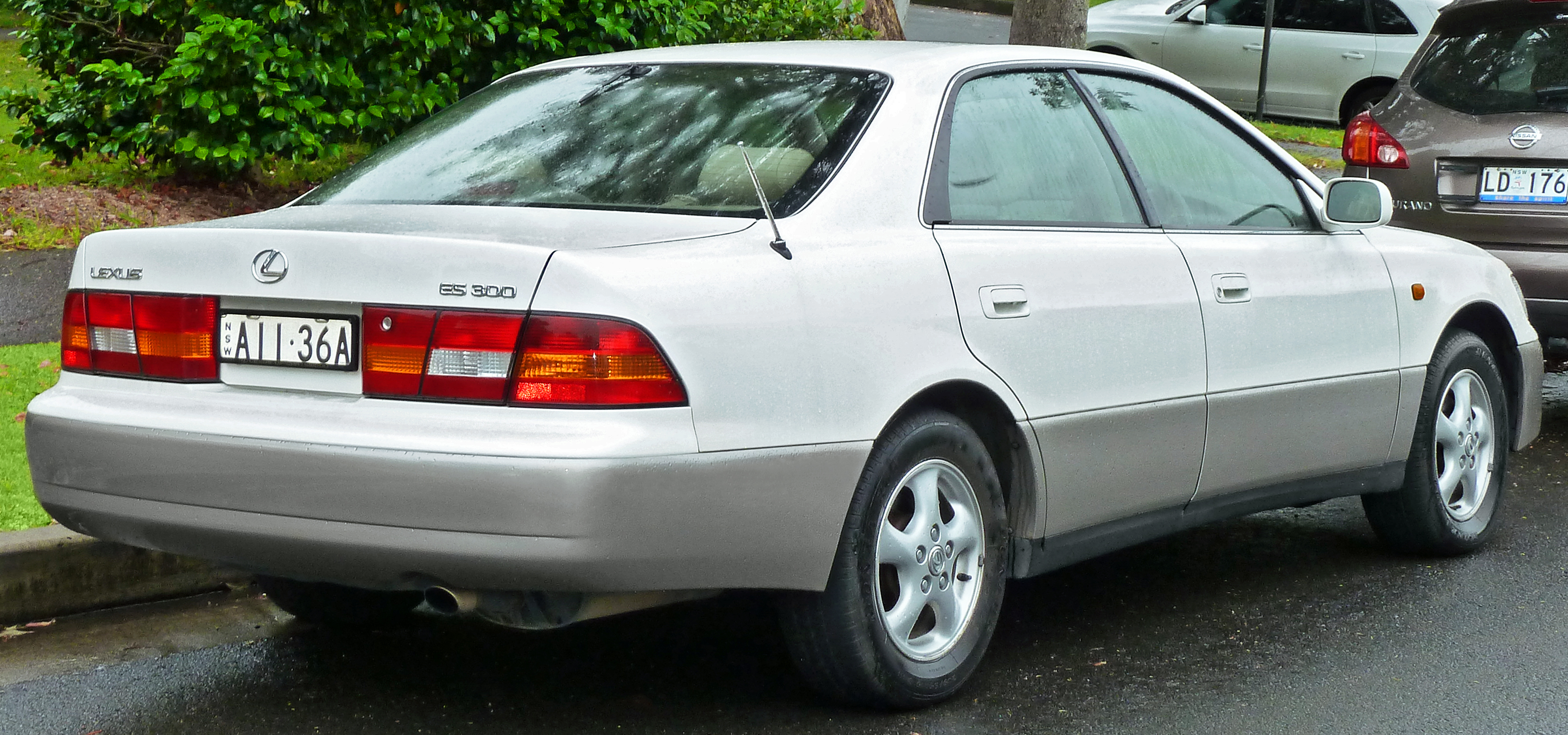 1999 Lexus ES 300 (MCV20R) LXS sedan. Photographed in Roseville, New South Wales, Australia.